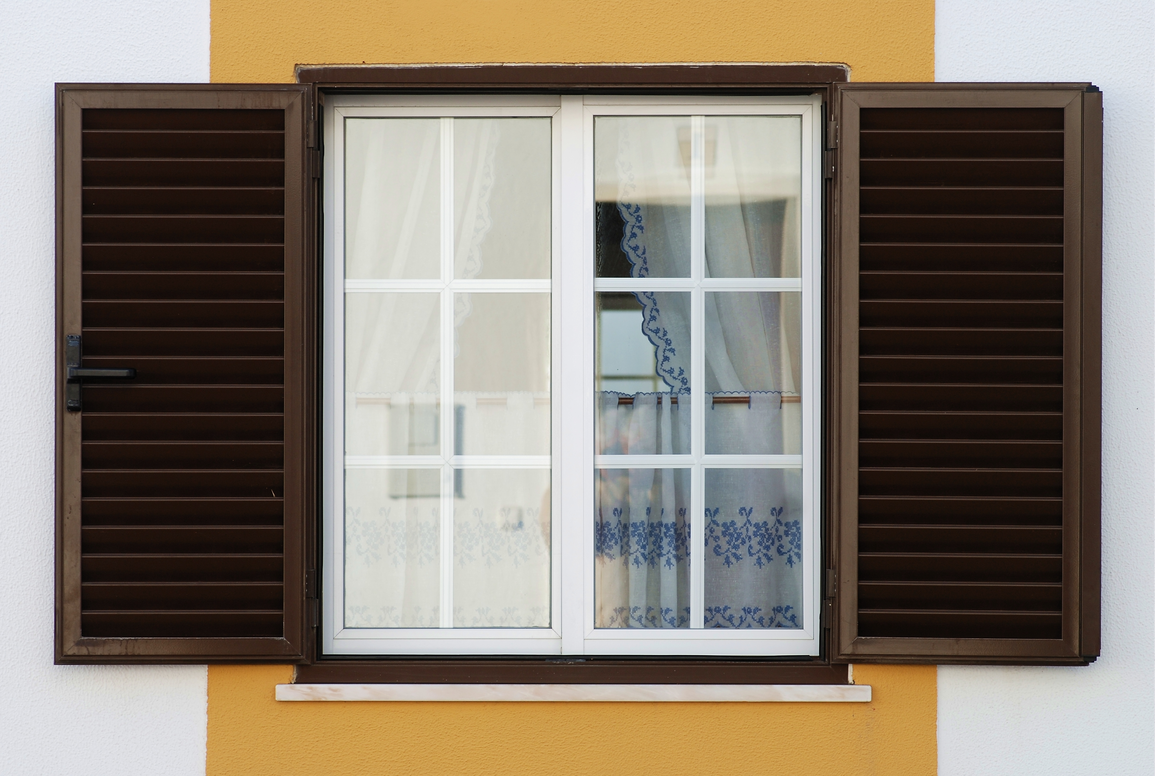 Window of a house. Porto Covo, Portugal